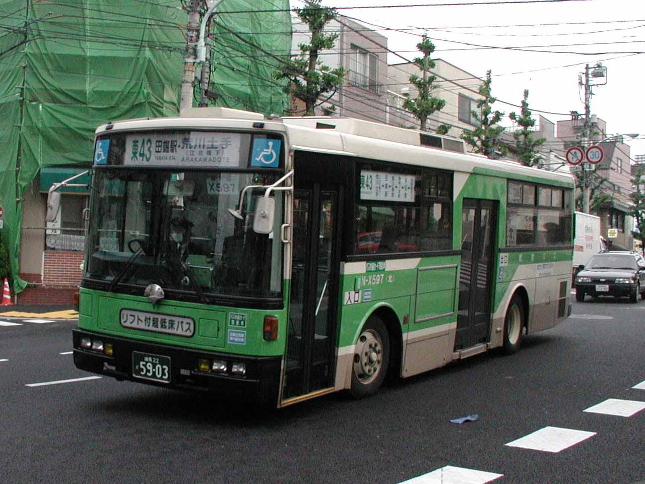 Toei Bus Higashi 43 route, down Dozaka Slope. Model: Nissan Disel UA low floor bus UA440HAN-kai (wheelchair lift equipped) License plate: TKN22KA5903 Place: Hon-Komagome, Bunkyo ward, Tokyo Japan